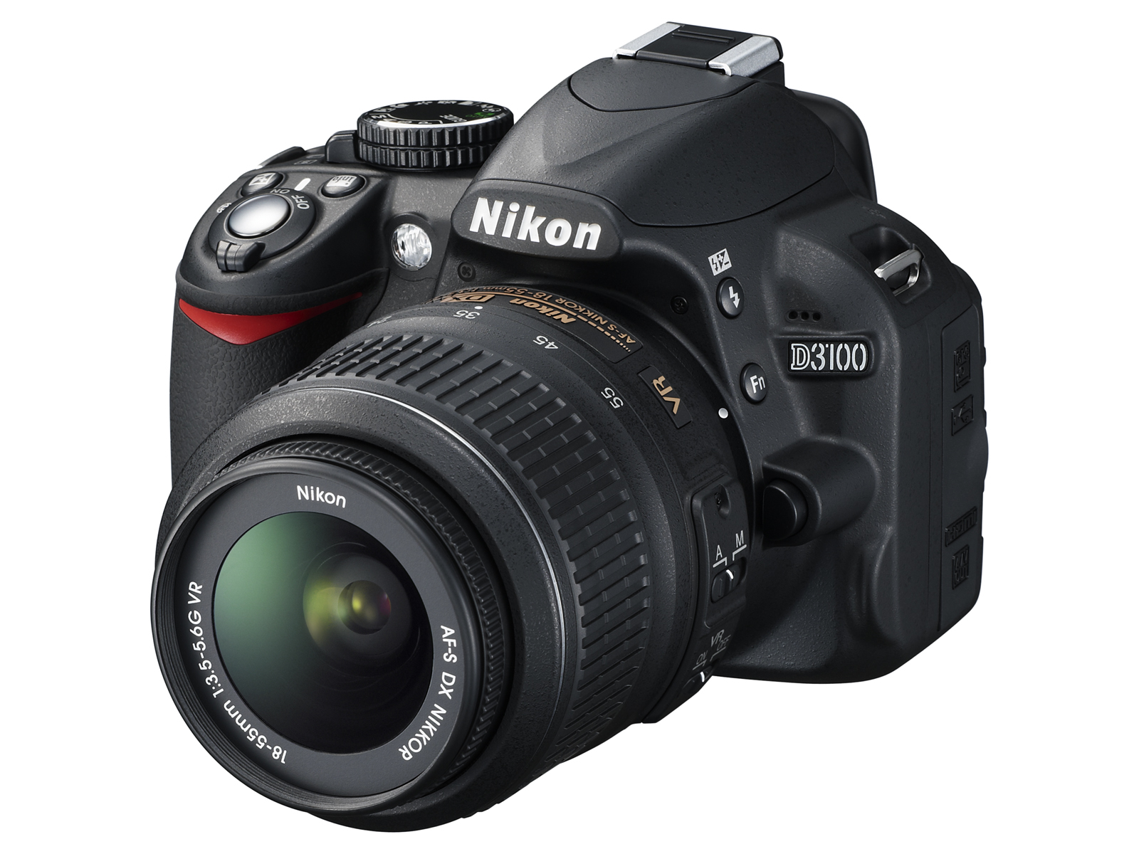 Nikon D3100 body with AF-S DX Nikkor 18-55mm